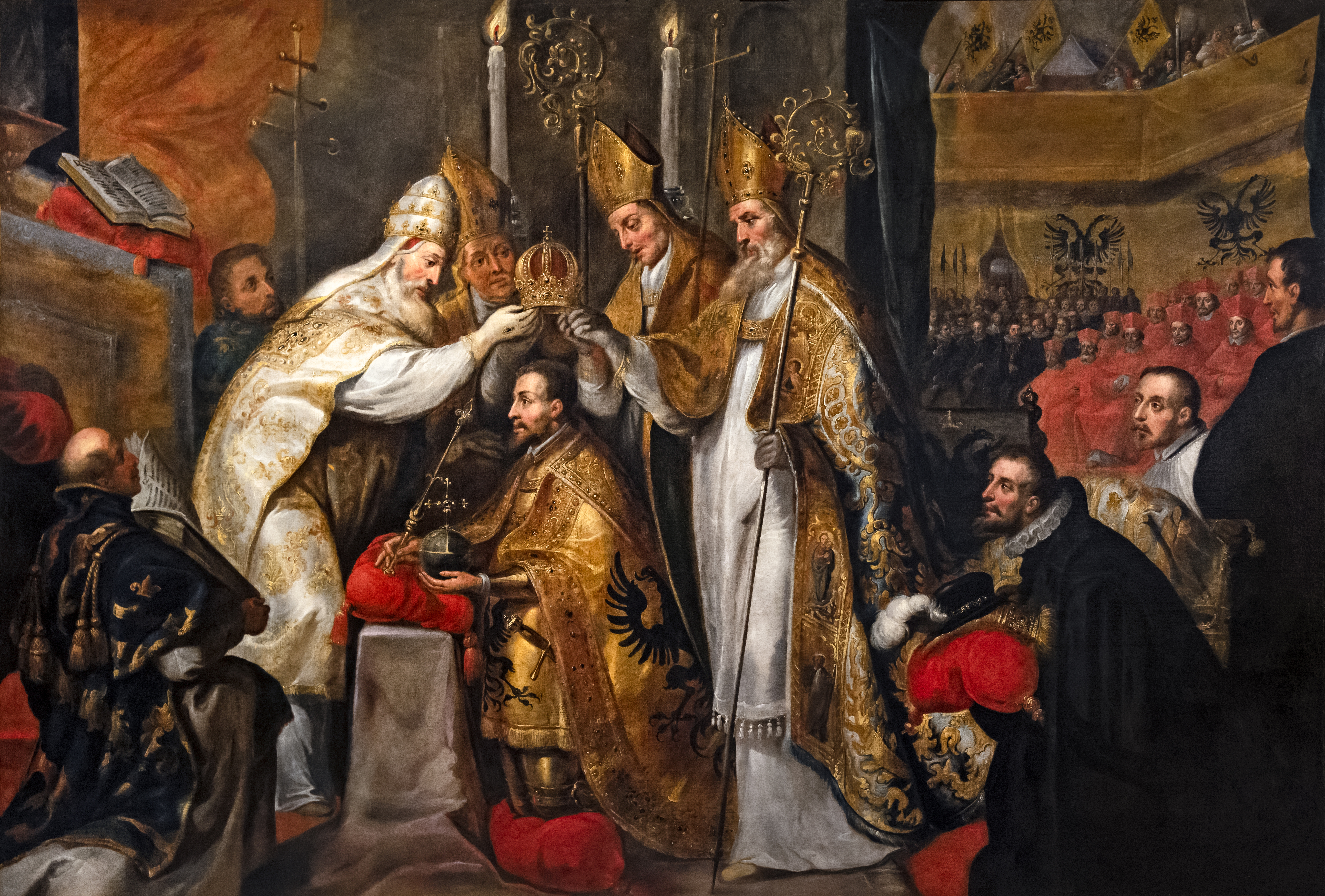 Depicted person: Charles V – Holy Roman Emperor